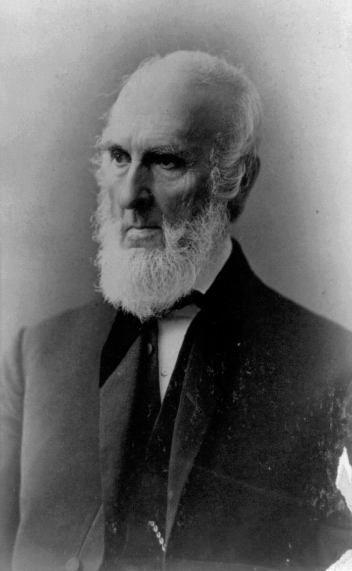 American poet John Greenleaf Whittier